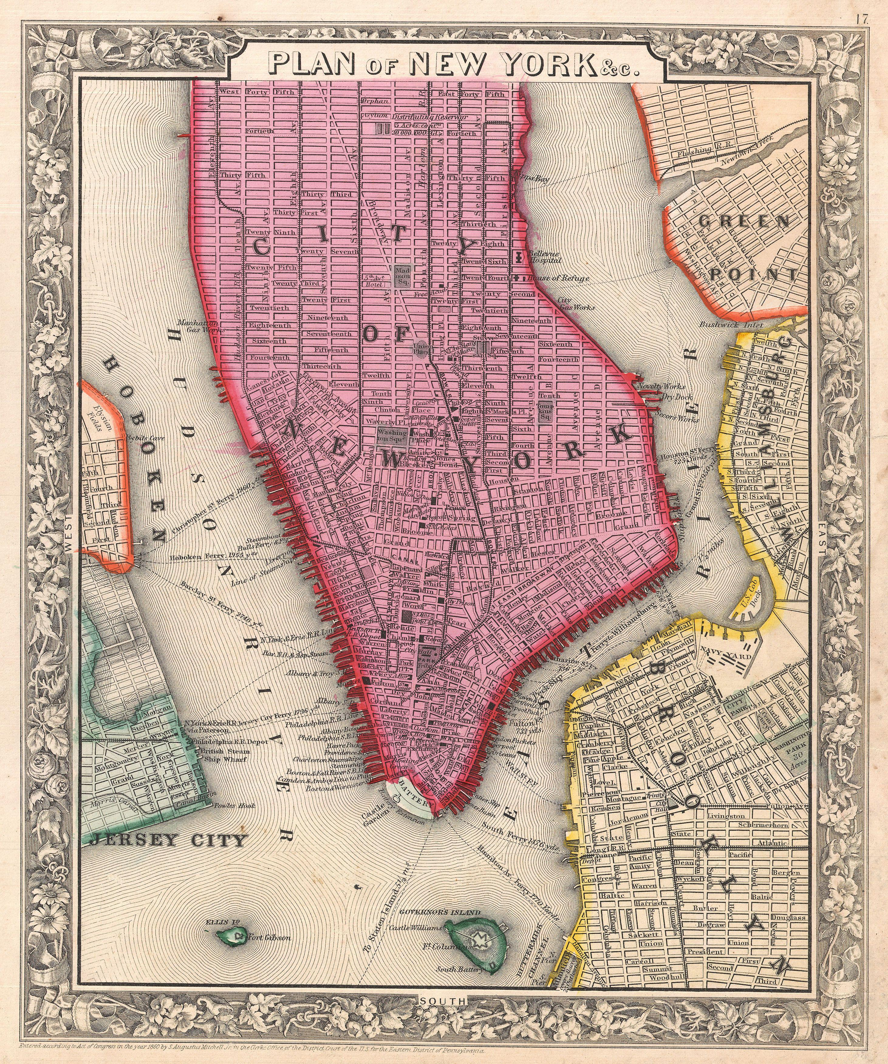 A beautiful example of the first edition of S. A. Mitchell’s 1860 map of New York City. Depicts New York City along with parts of Brooklyn, Williamsburg, Greenpoint, Hoboken and Jersey City. Offers wonderful detail at the street level including references to parks, individual streets, piers, ferries, and important buildings. Colored coded with pastels according to towns. Surrounded by the attractive floral border common to Mitchell atlases between 1860 and 1865. This variant differs from later examples (1861-2) of Mitchell’s New York in that city wards are not defined. One of the more attractive atlas maps of New York to appear in the mid 19th century. Prepared by S. A. Mitchell Jr. for inclusion as plate 16 in the 1860 issue of Mitchell’s New General Atlas . Dated and copyrighted, “Entered according to Act of Congress in the Year 1860 by S. Augustus Mitchell Jr. in the Clerk’s Office of the District Court of the U.S. for the Eastern District of Pennsylvania.